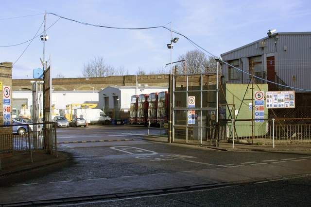 Peckham bus garage This garage is currently operated by London Central and is situated in Blackpool Road. It opened in 1994 and replaced a similar but larger facility in Peckham High Street on part of whose site the present bus station now stands. The viaduct in the background carries the railway east of Peckham Rye station.